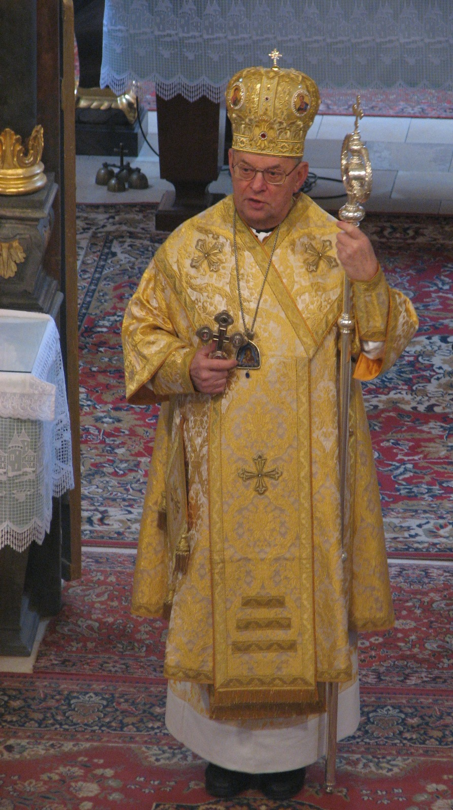 Szilárd Keresztes, Greek Catholic bishop of Hajdúdorog, Hungary. The photo was taken at the Easter celebration of 2007 inside the Greek Catholic Cathedral of Hajdúdorog. Szilárd Keresztes was retired in 2008 right now he holds the title of Bishop Emeritus of Hajdúdorog.